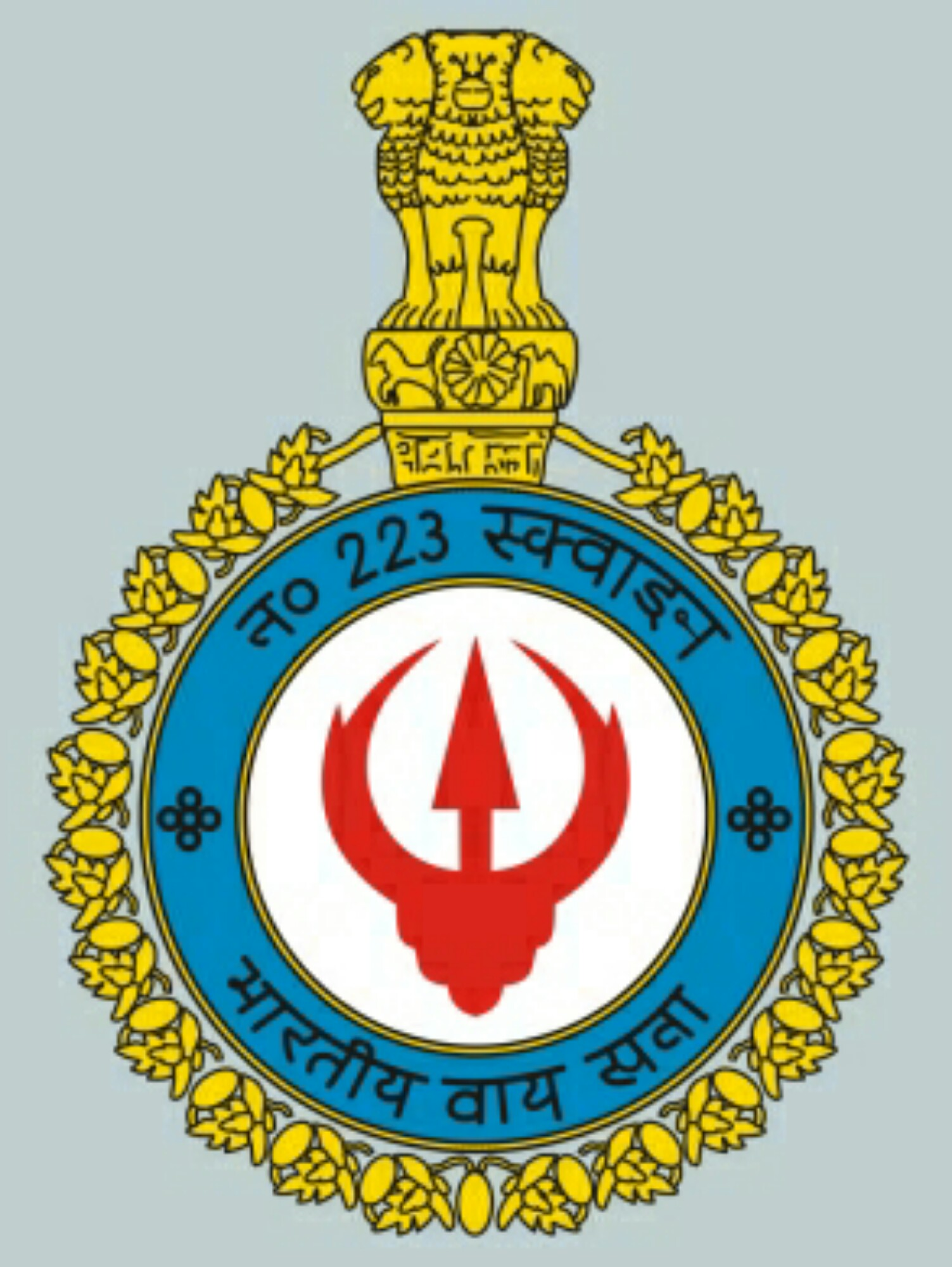 Insignia of No. 223 Squadron "Tridents".